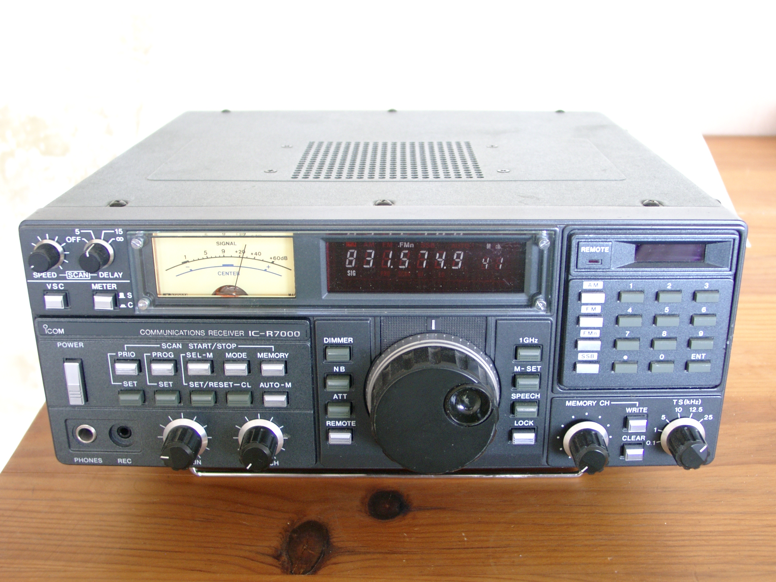 Radio receiver Icom IC-R7000